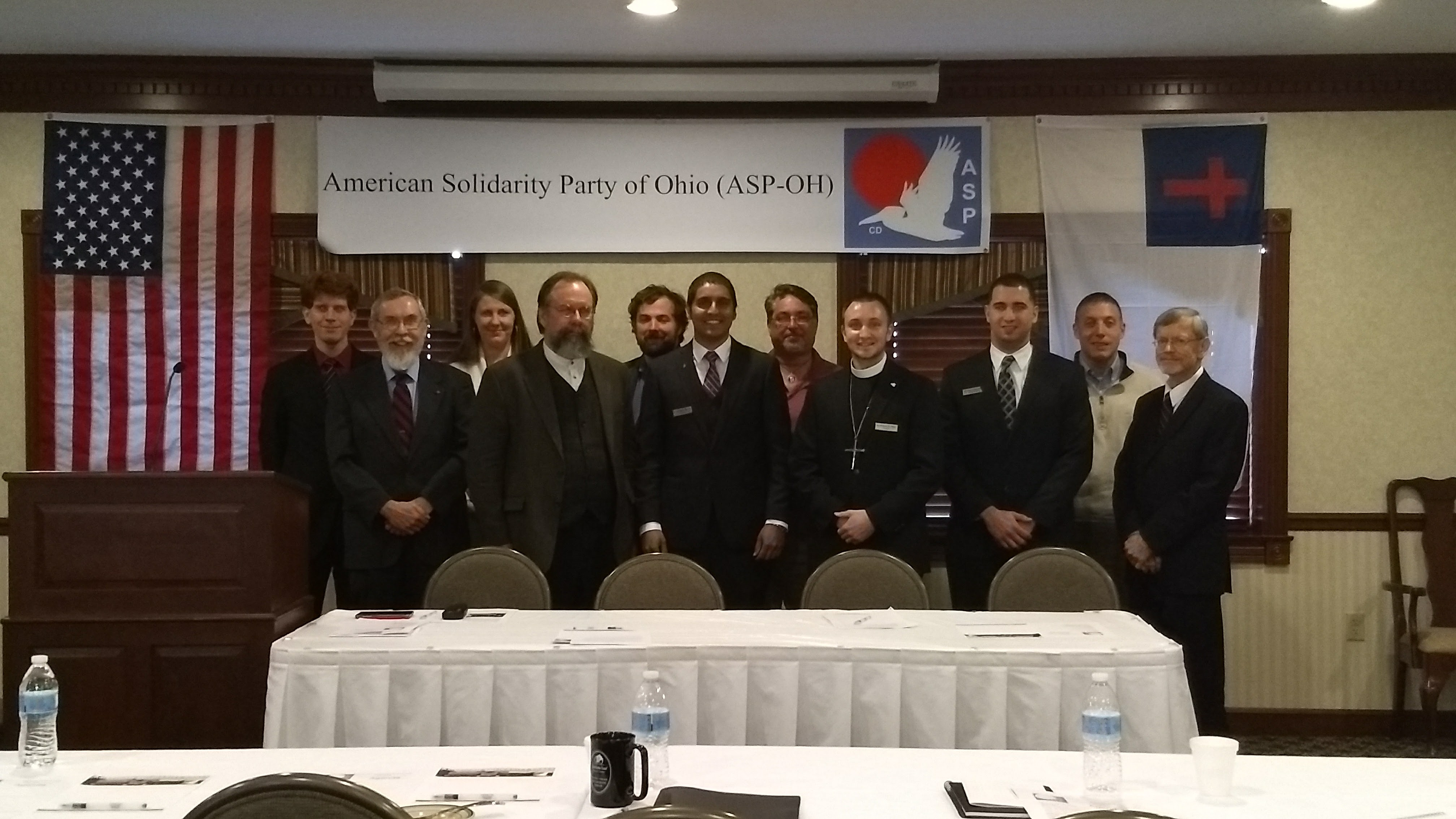 Photo of American Solidarity Party members at the ASP Midwestern Regional Meeting at the Carlisle Inn of Walnut Creek